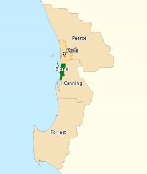 This image incorporates data that is: © Commonwealth of Australia (Australian Electoral Commission) 2009 Division of Brand 2010